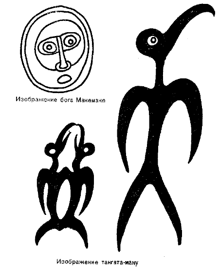 Easter Island. Images of Manemane and Tangata-Manu.